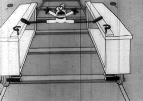 Scene from the 1930 cartoon Box Car Blues. The boxcar on the runaway train splits in half.